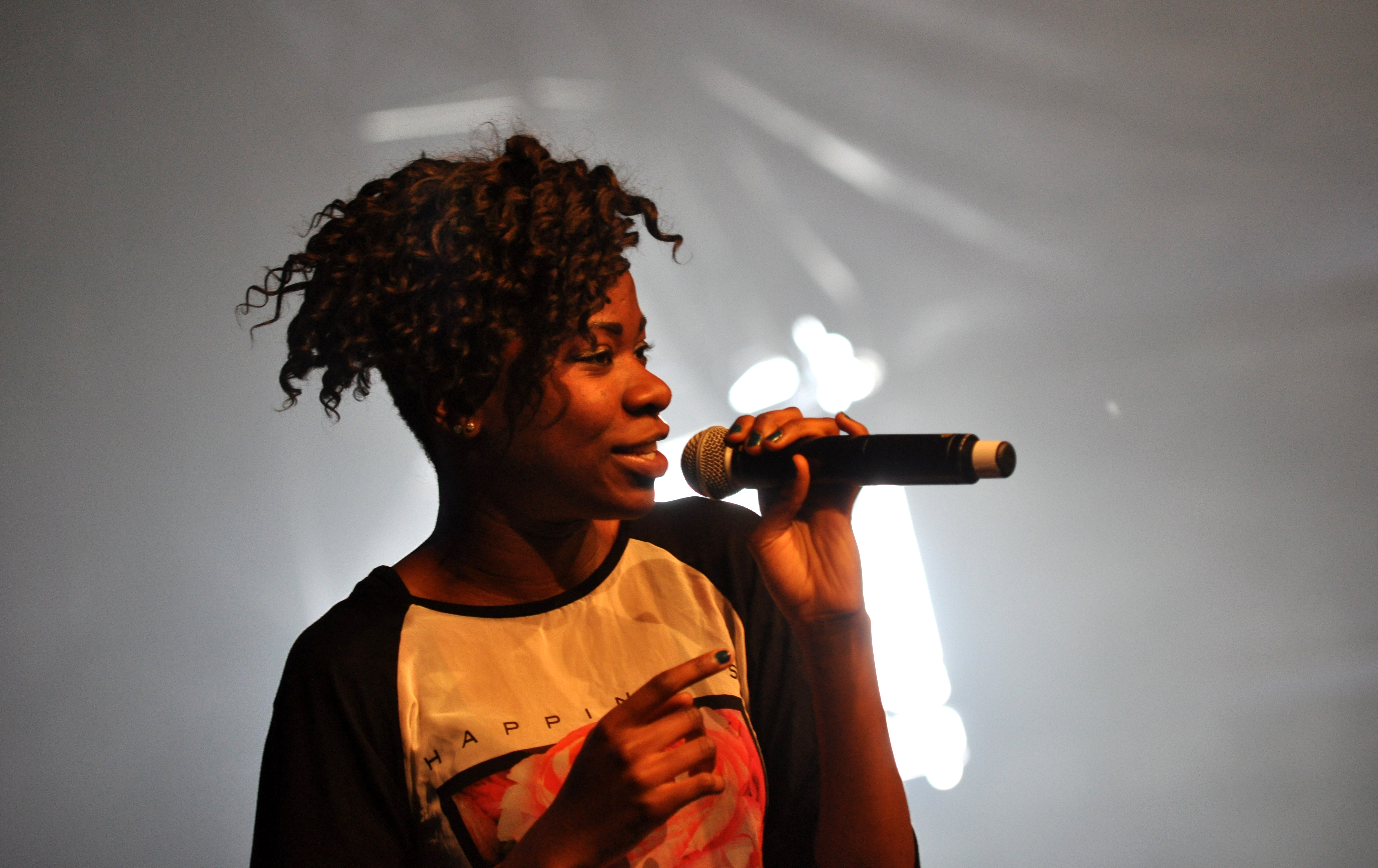 Female Rapper Coely at Paaspop 2014